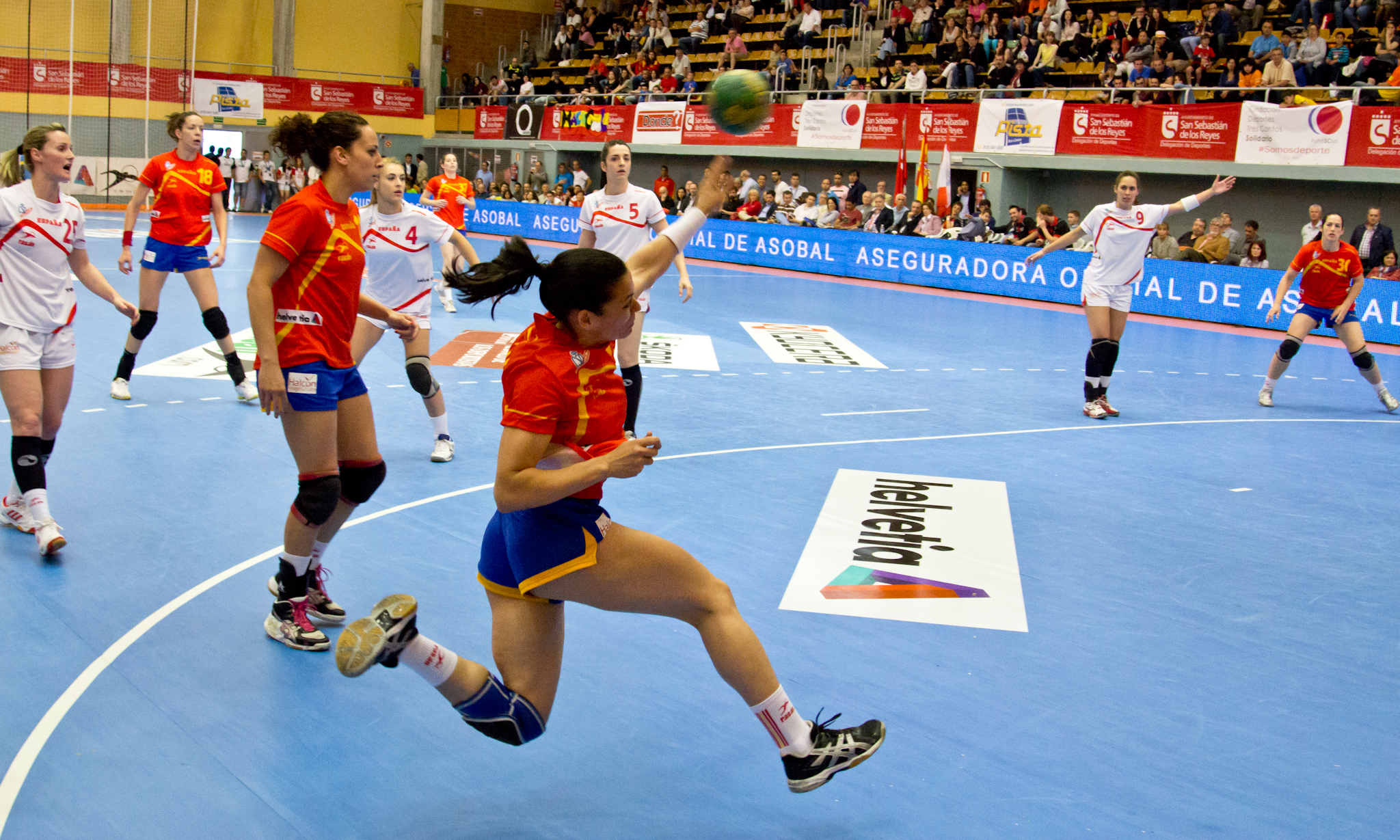 Handball All Star Game 2013, held in San Sebastián de los Reyes, Madrid, Spain.